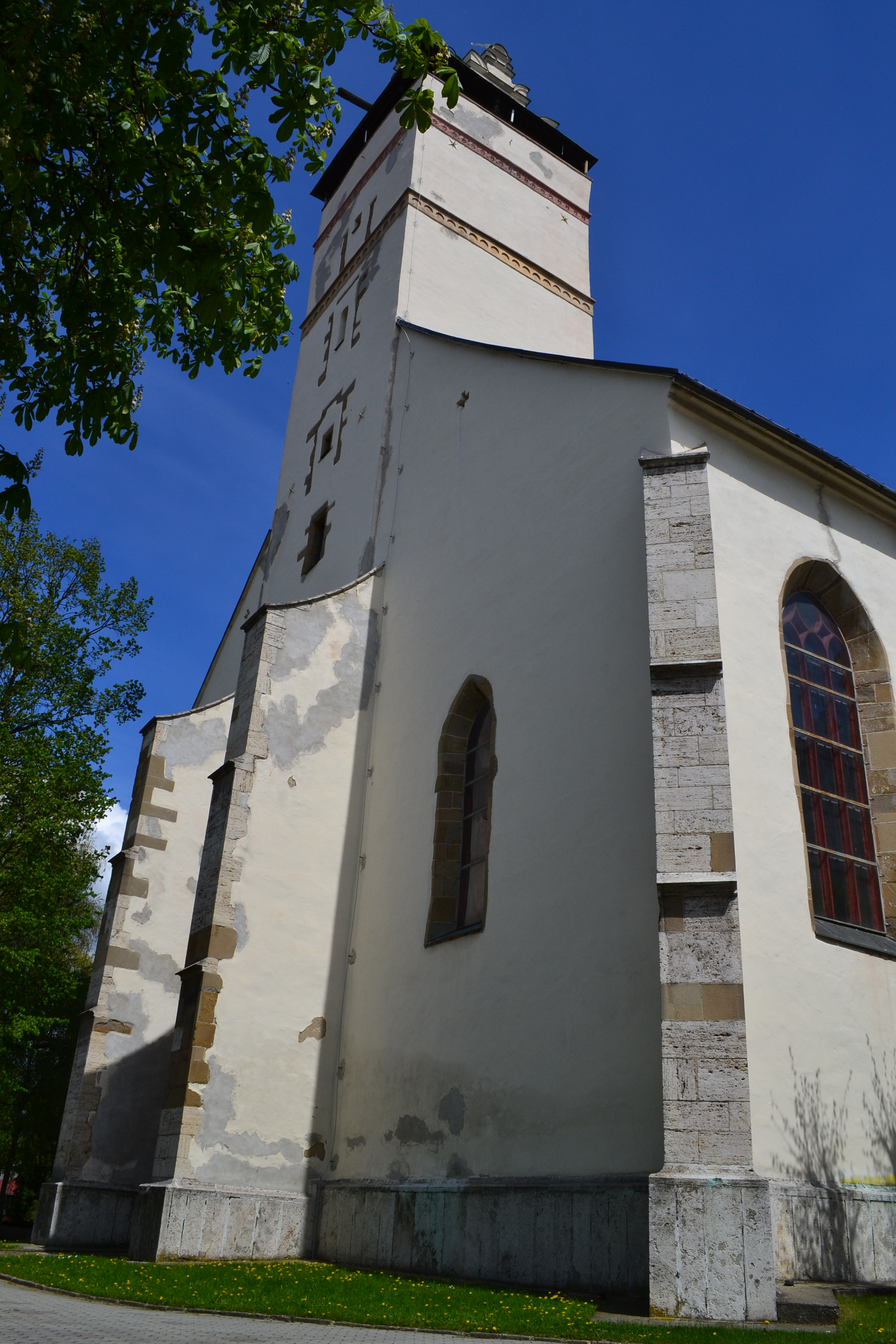 Basilica of the Holly Cross in Kezmarok